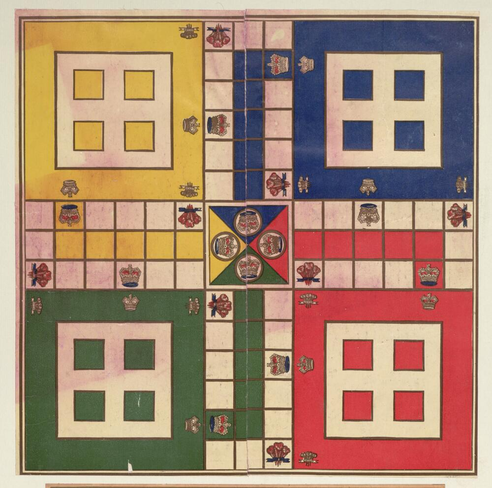 Game of 1900 entitled Ludo & royal ludo; two boards; Royal ludo; Image 2